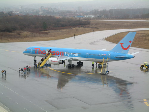 Thompsonfly at Niš Constantine the Great Airport. Image originally by User:Alxadj; re-uploaded to Commons under the same name and license.